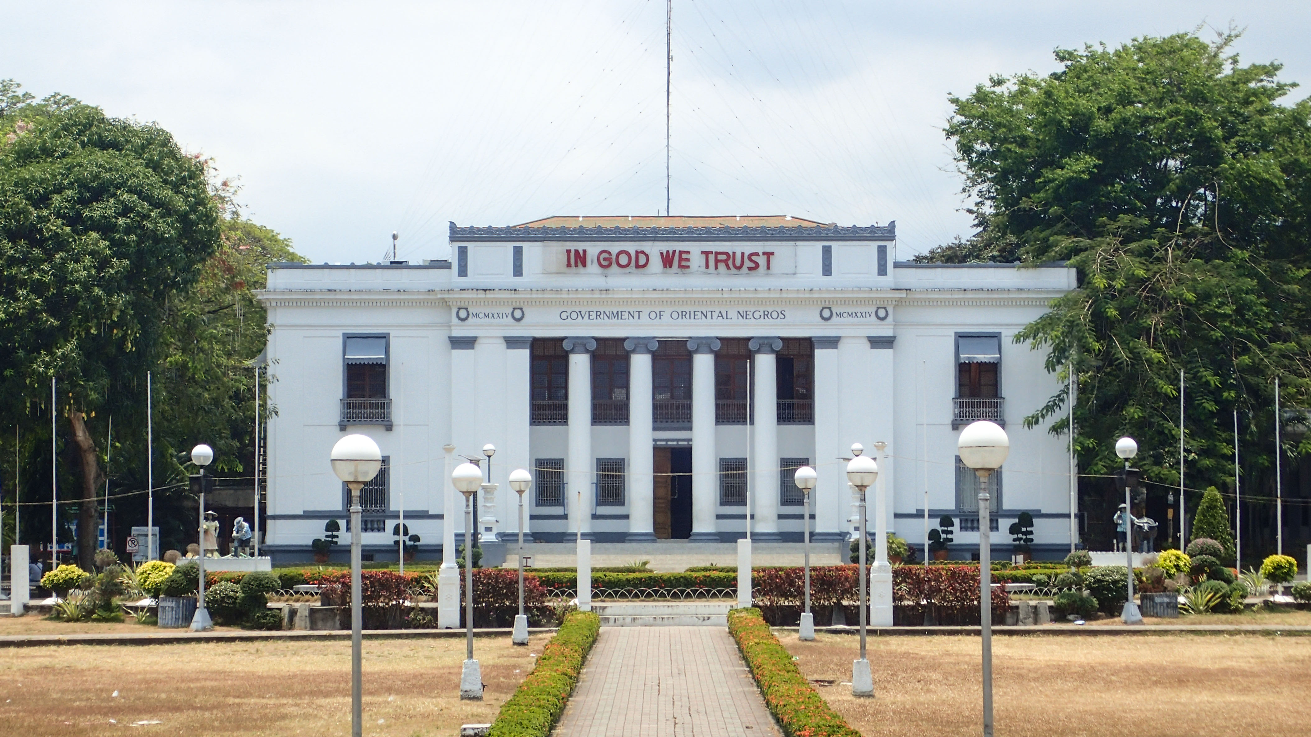 Front facade of the neoclassical provincial capitol